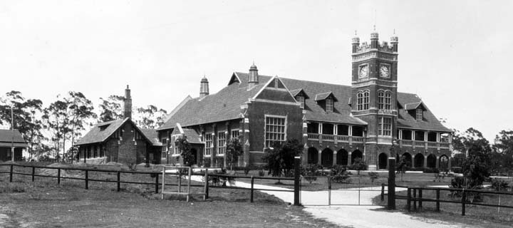 The Southport School, Winchester Street, Southport.